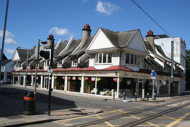 Reeves furniture emporium, Reeves Corner This large and long-established furniture shop has given its name to the locality nearby, including a tram stop. (Note: It was destroyed in the riots of 2011).